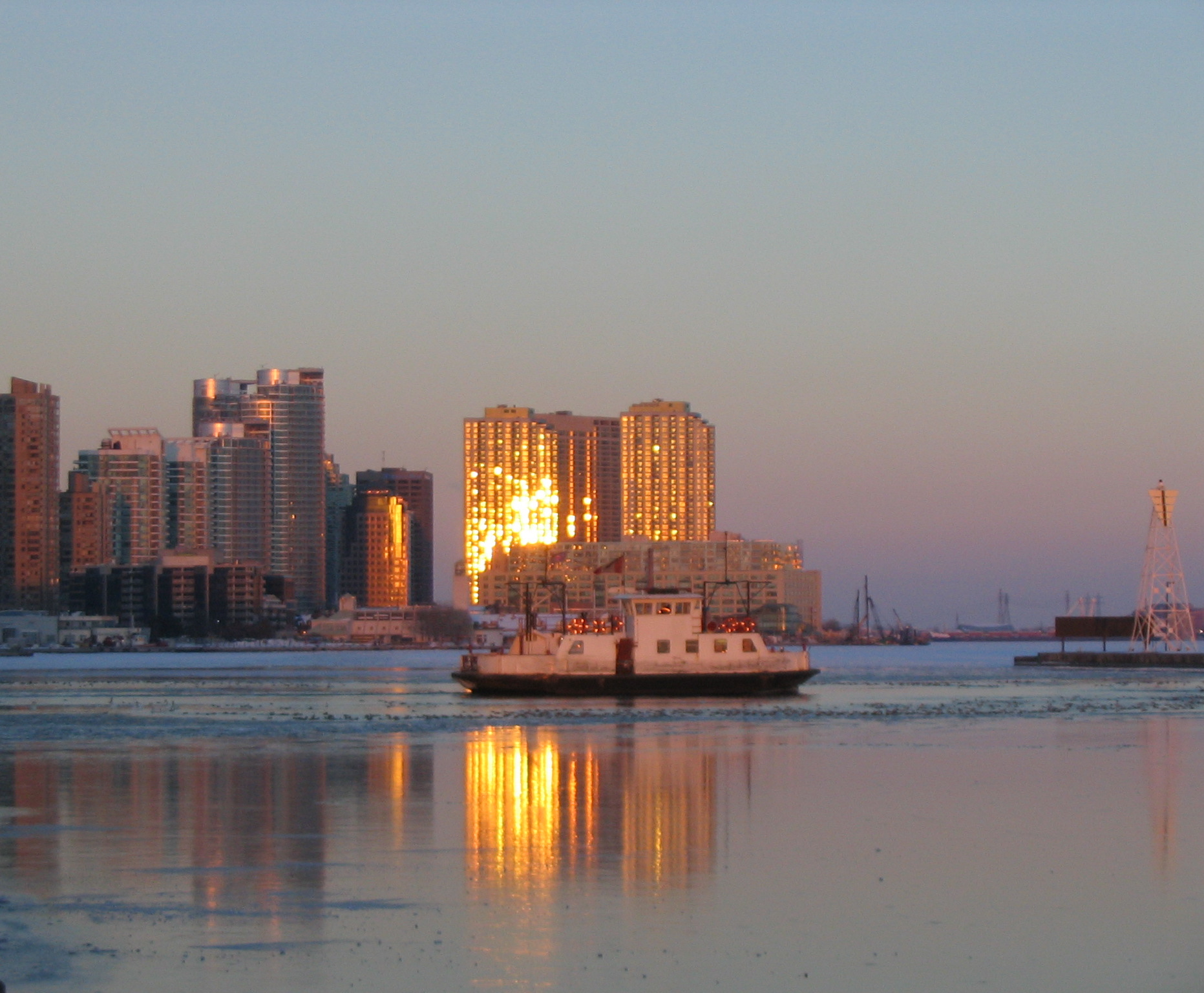 This is my favorite shot. I love the Island Airport. I took some flying lessons there. You can hang out and play pool with the pilots, but most Torontonians don't know about this part of the Island, and the ferry ride is only 5 minutes.